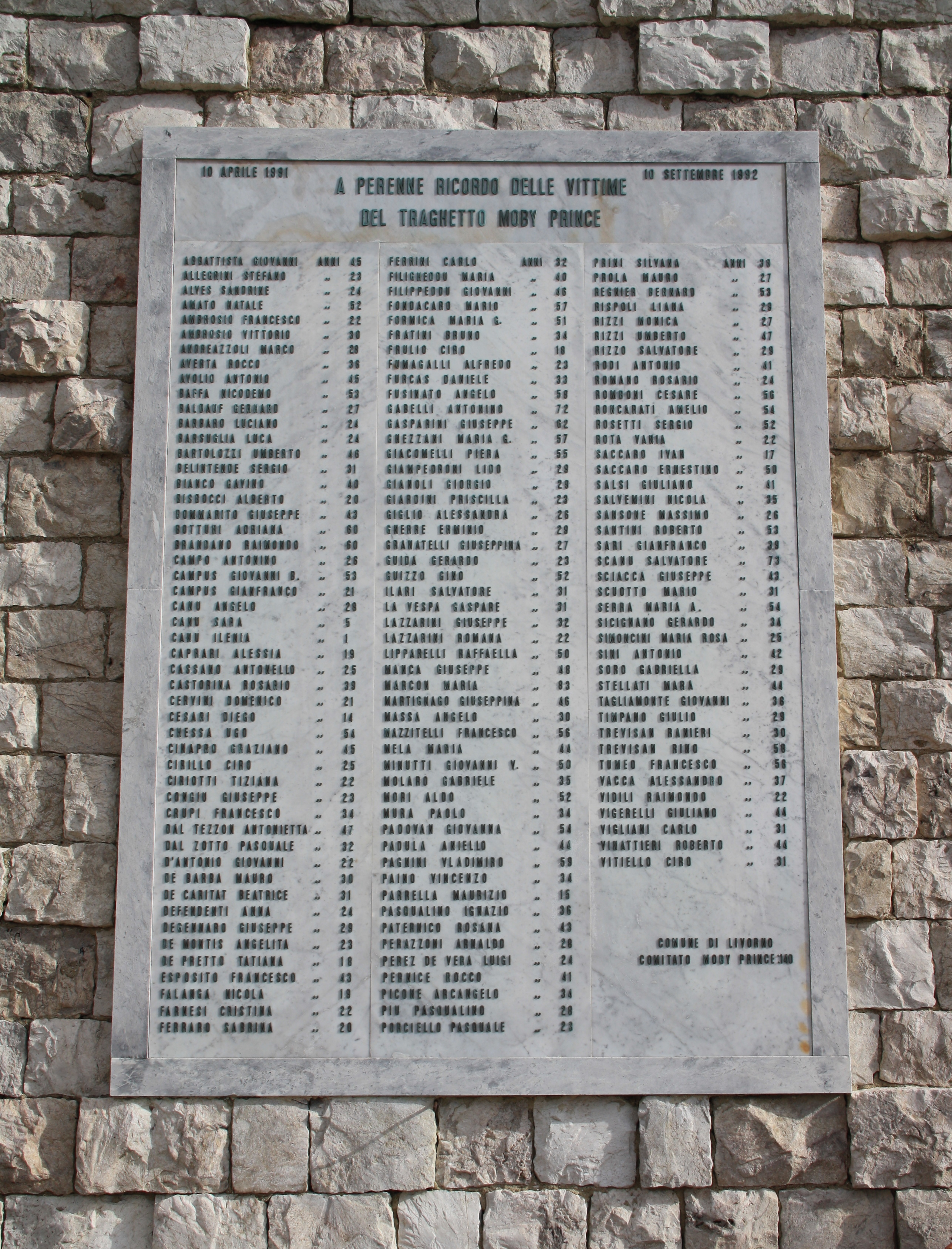 Italy, Port of Livorno. The plaque placed at the dock “Andana degli Anelli” of “Porto Mediceo” in memory of the 140 victims of the Moby Prince disaster.